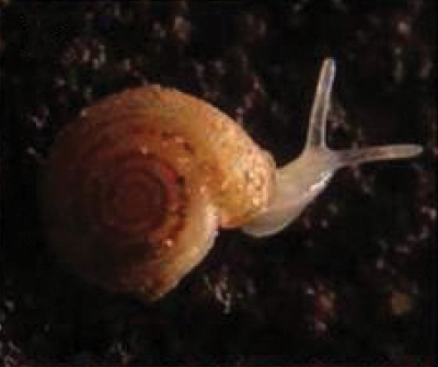 Photo of a live snail Rotadiscus sp. n. from Toca do Gonçalo cave in Brazil.